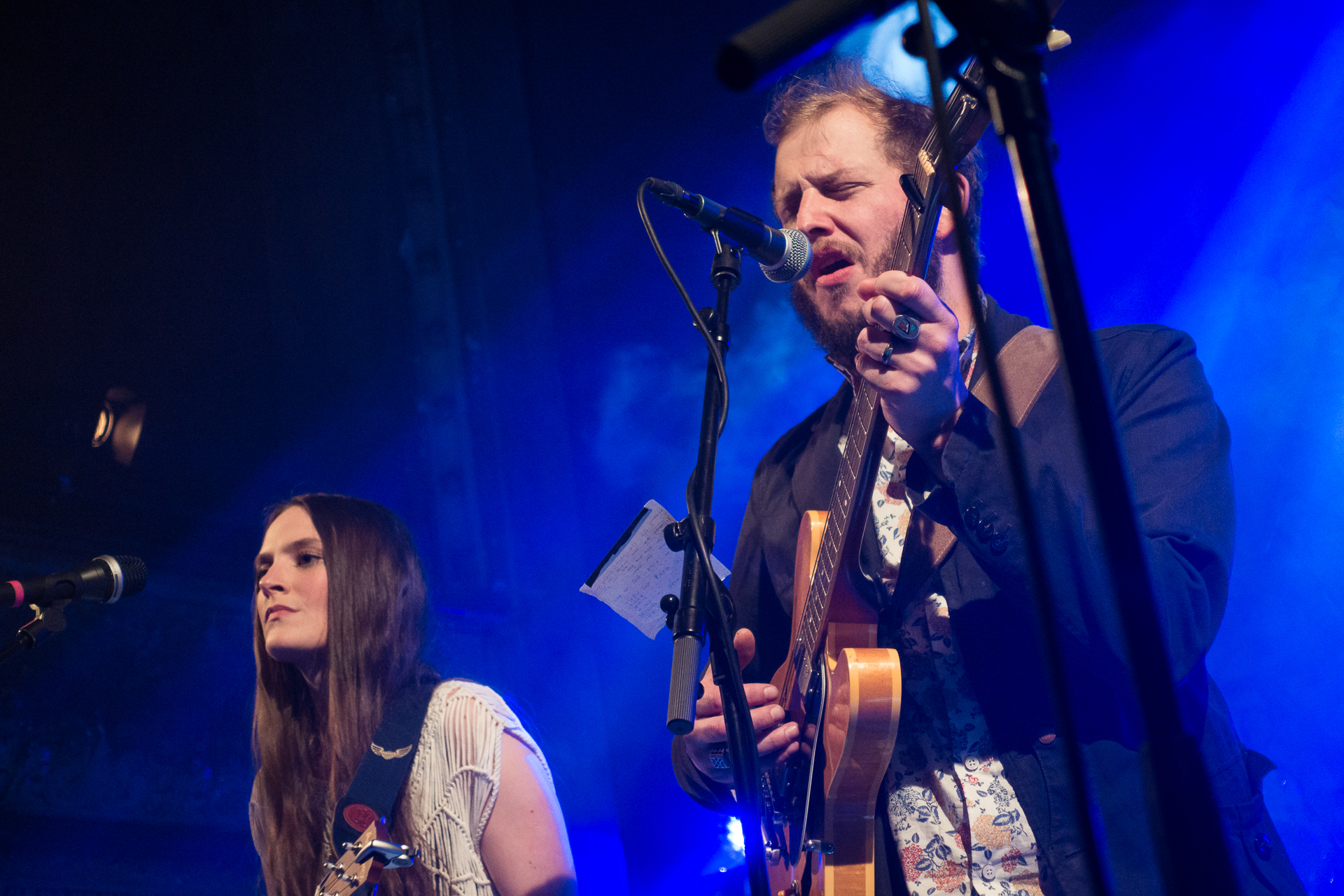 The Staves with Bon Iver at Wilton Music Hall